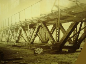 A bridge for the Oudh and Rohilkund Railway in works